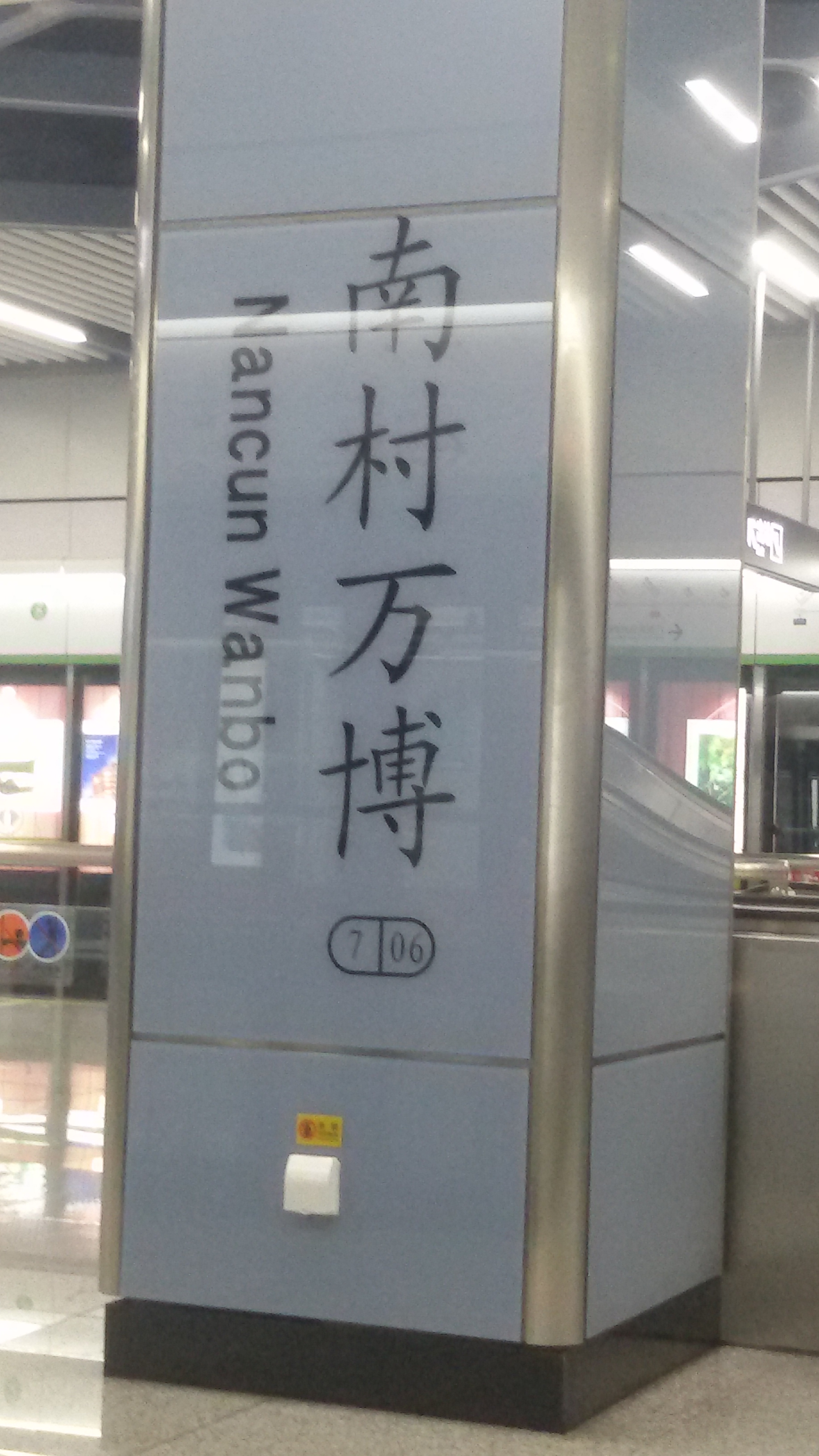 WORD on PILLAR for Nancun Wanbo Station in Guangzhou Metro